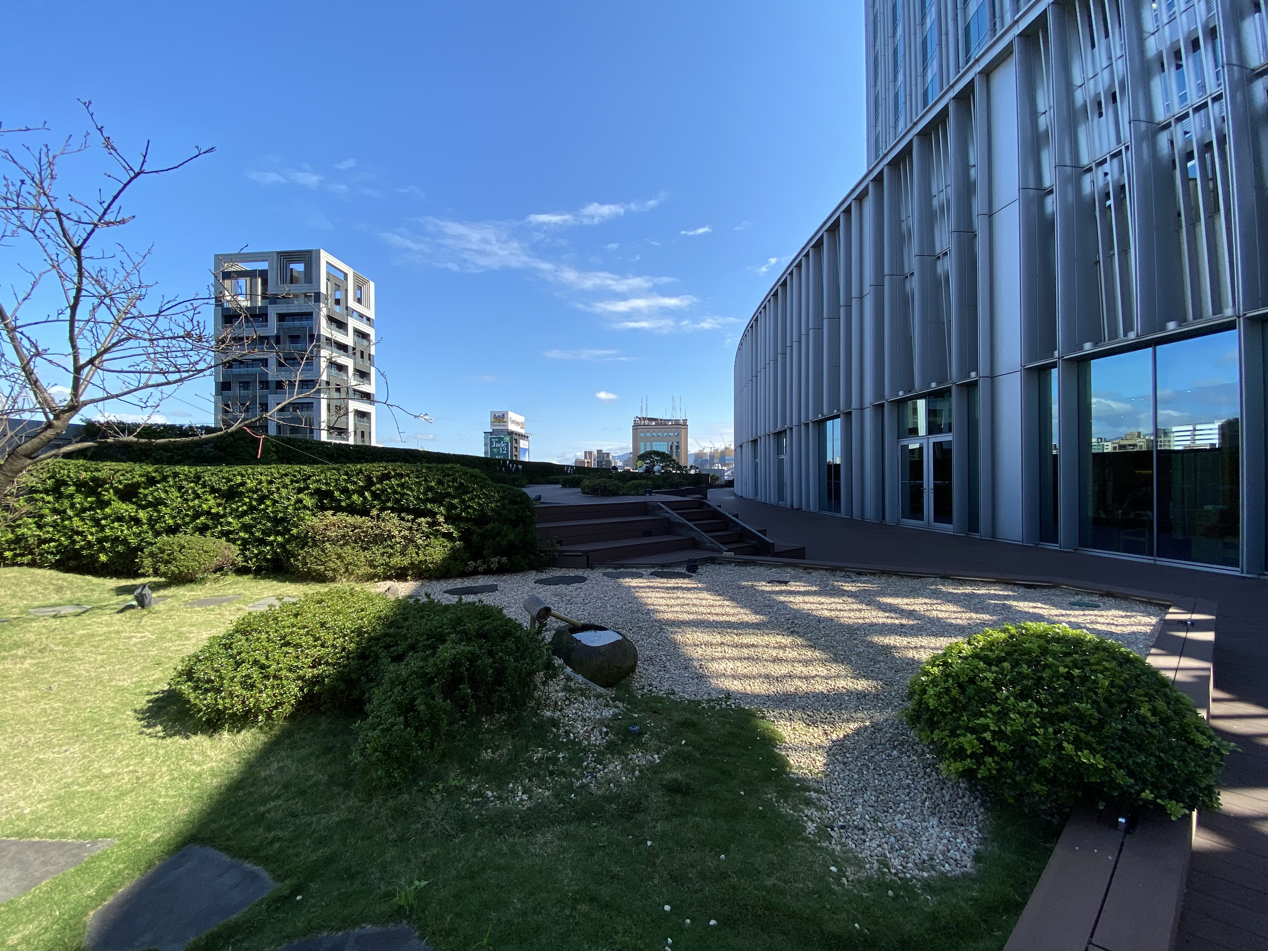 Cathay Landmark Podium Garden